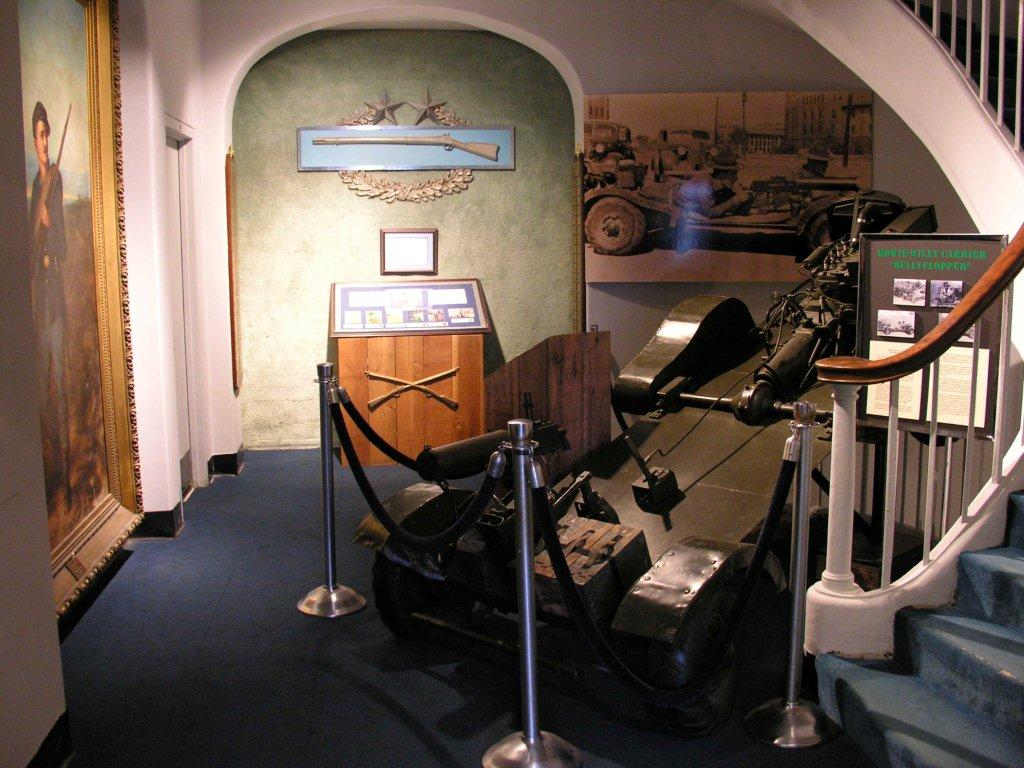 Original exhibit of The Three Time Recipients' of the Combat Infantryman Badge exhibit, National Infantry Museum 2004. The museum has moved to a new facility and this exhibit is not currently on display. A new exhibit is being planned to honor the 3 time CIB recipients'.